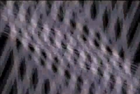 demo effect